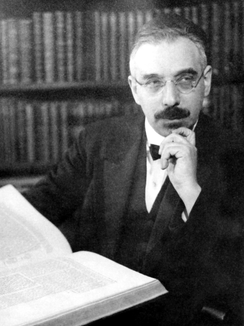 David Alexander Winter (1878-1953), German rabbi